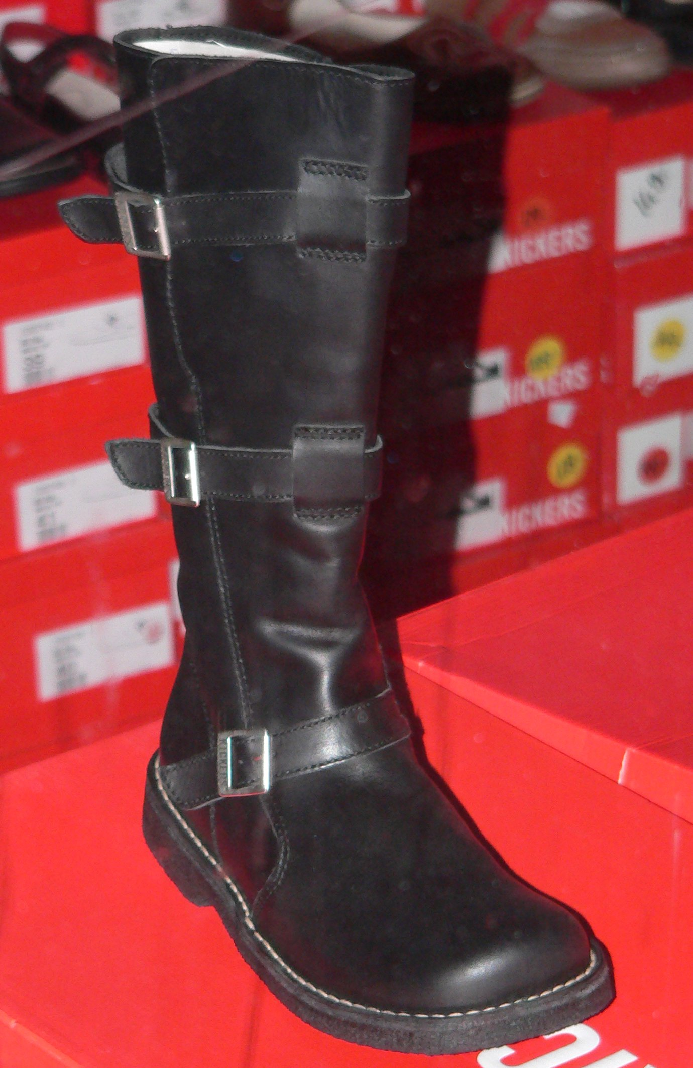 Elements of Gothic fashion